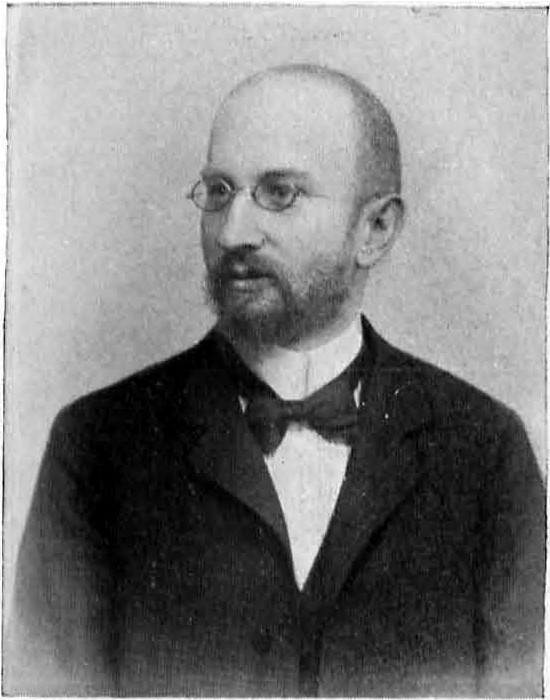 Wilhelm Altmann (1905)